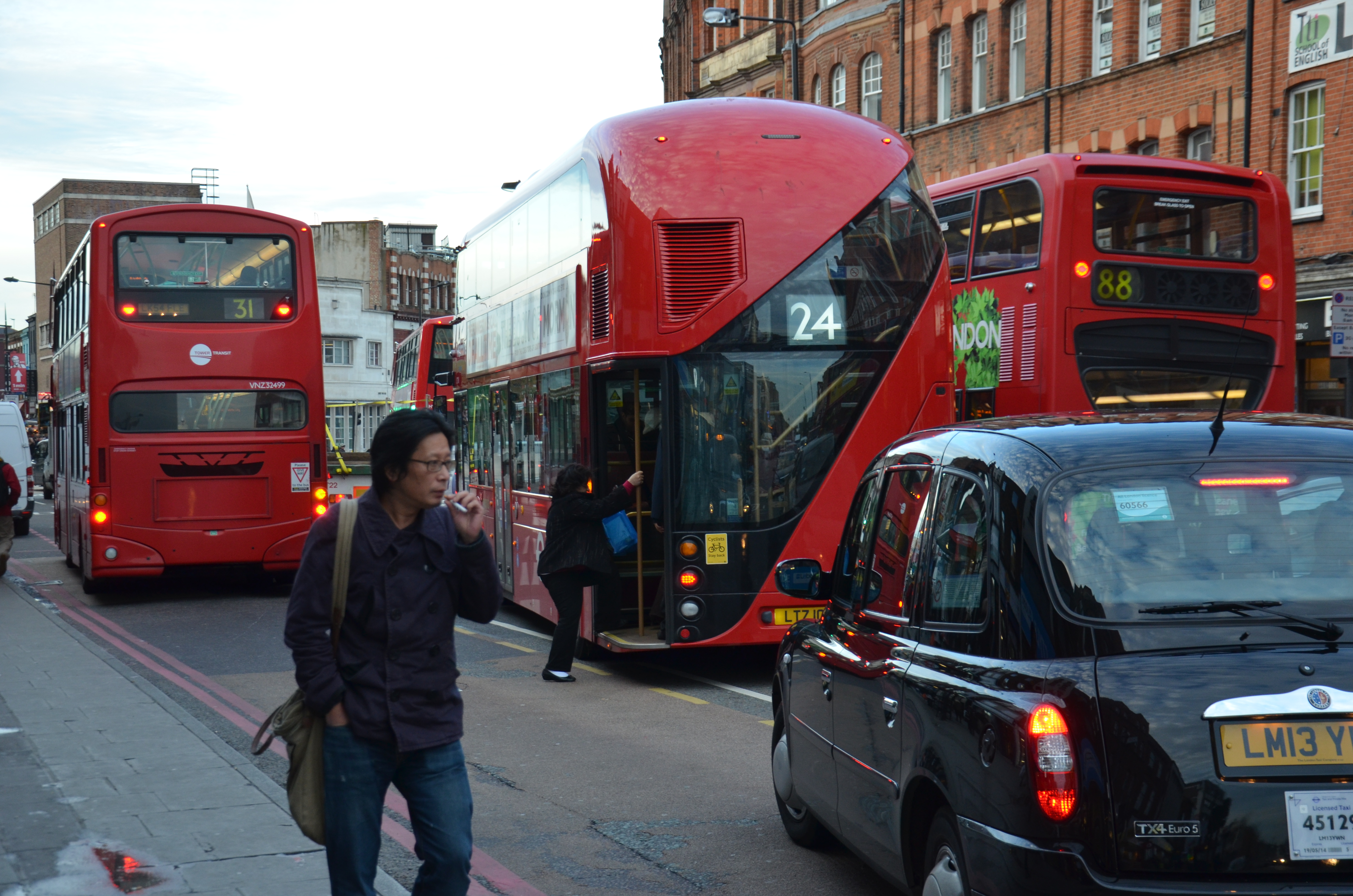 New Bus for London i Camden Town